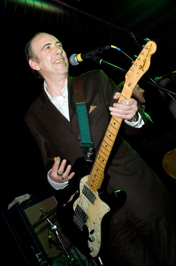 Mick Jones, former Clash guitarist, plays with his current band Carbon/Silicon at the Carbon Casino VI event at the Inn On The Green on 22nd February 2008.